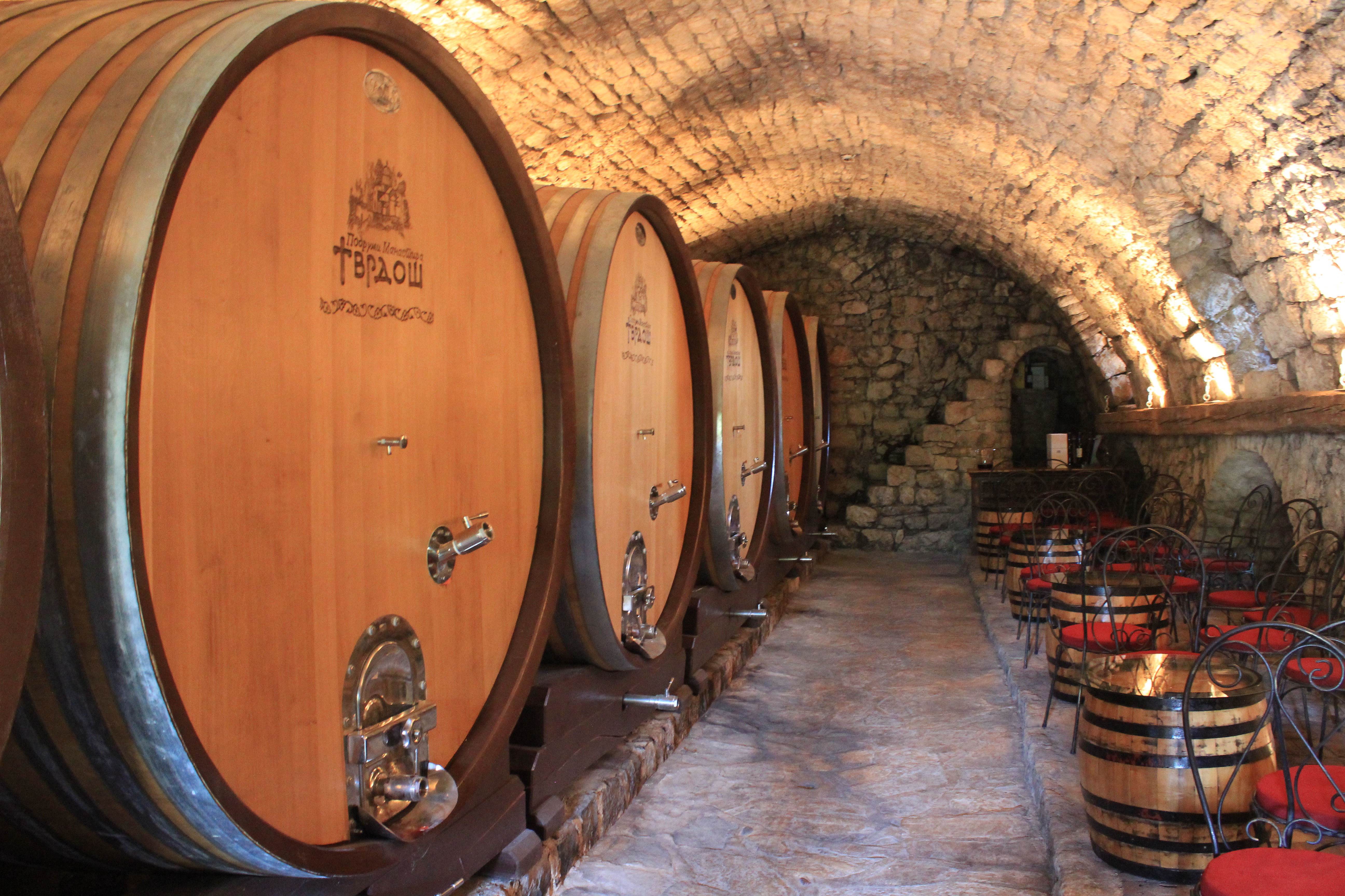 Tvrdoš Monastery